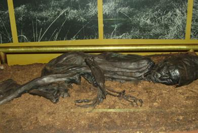 Bog body Tollund Man on display at Silkeborg Museum. Found on 1950-05-06 near Tollund, Silkebjorg, Denmark and C14 dated to approximately 375-210 BCE.